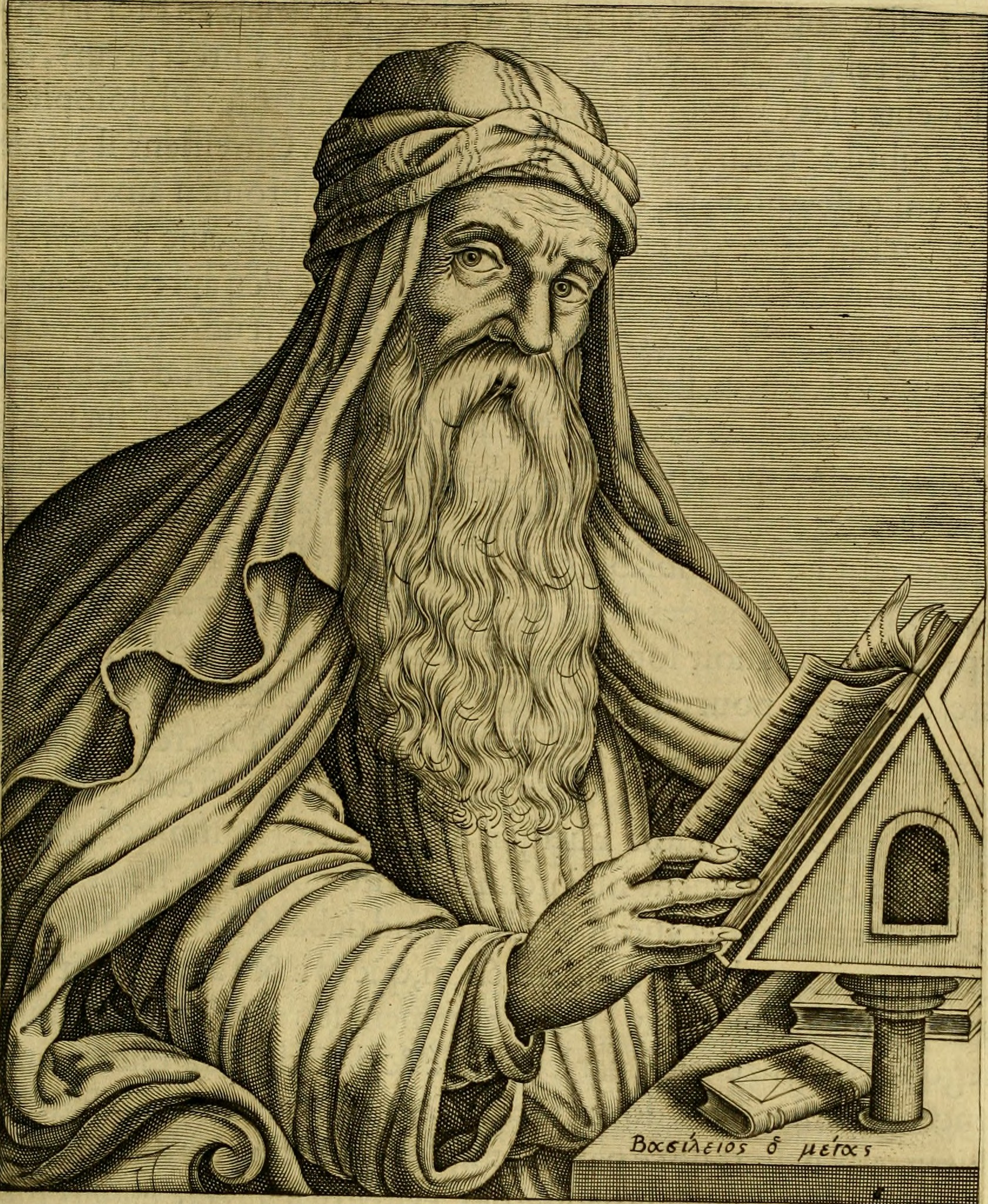 Basil the Great, from tome 1, folio 3 recto of Les vrais pourtraits et vies des hommes illustres grecz, latins et payens (1584) by André Thevet.